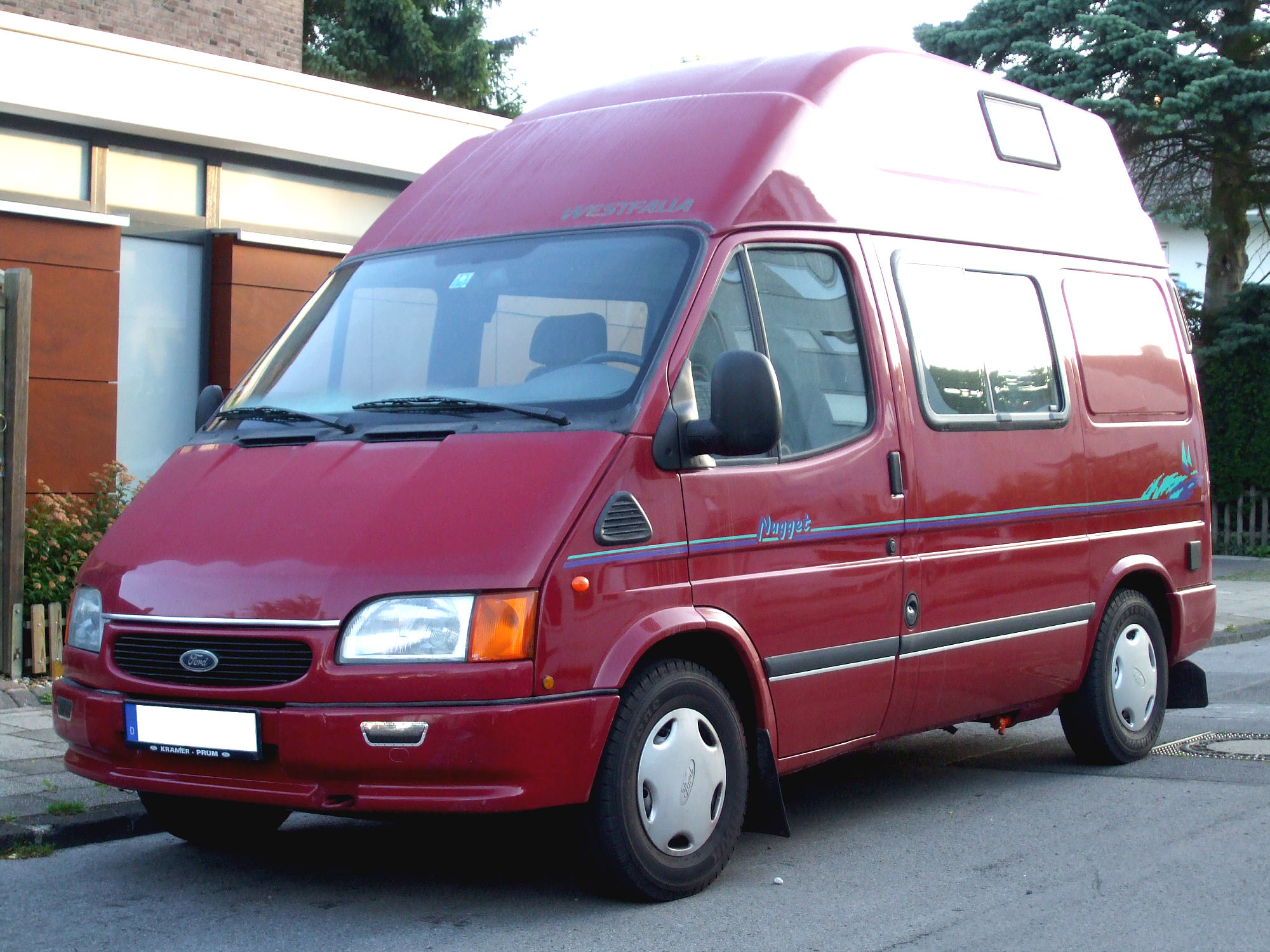 Westfalia camping vehicle «Nugget», Ford Transit ~ 1998